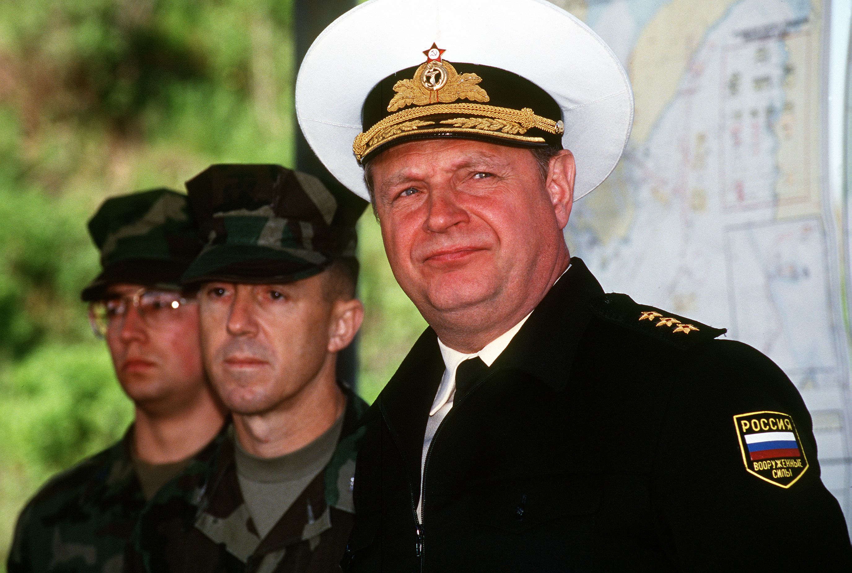 Russian Chief of Staff and the 1st Deputy Director to the Russian Commander in Chief, (equivalent to USN CNO), Admiral Kasatonov watches as amphibious assault vehicles (AAV's from the USS DUBUQUE (LPD-8) (not shown) come ashore at an isolated beach near Vladivostok for cross training operations between U.S. & Russian AAV battalions. This is part of the combined American-Russian disaster relief exercise.